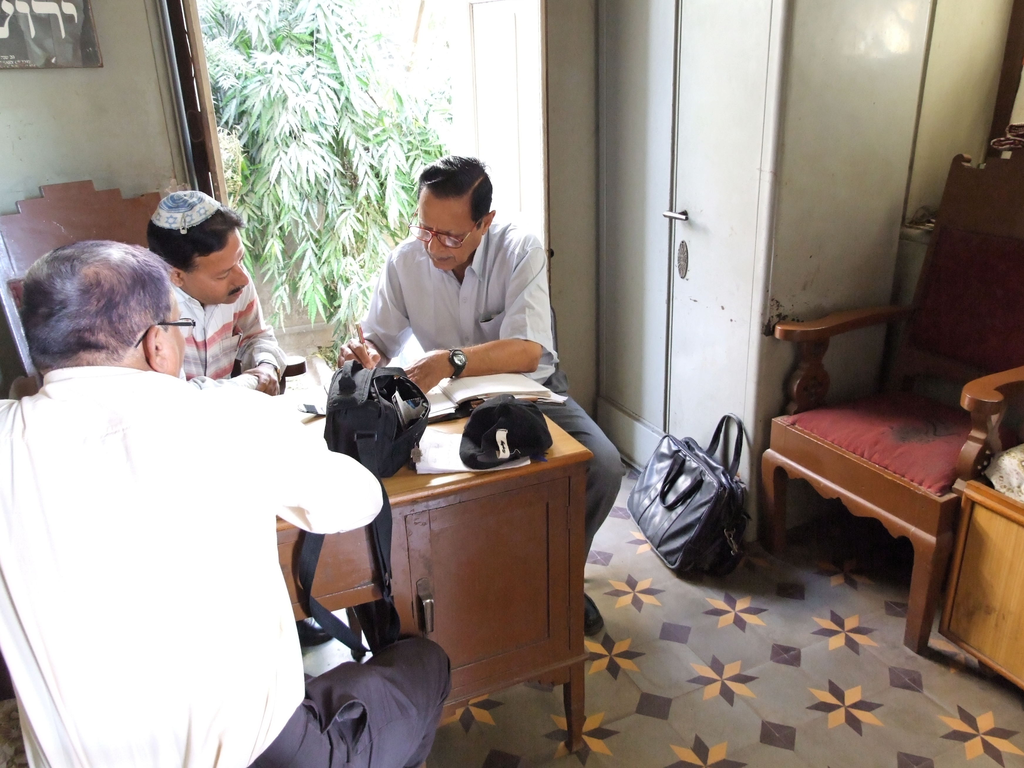 Members of the Jewish community in Madhupura, Ahmedabad, India. The community in Madhupura has about 70 families, they are Bene Israel Jewish.